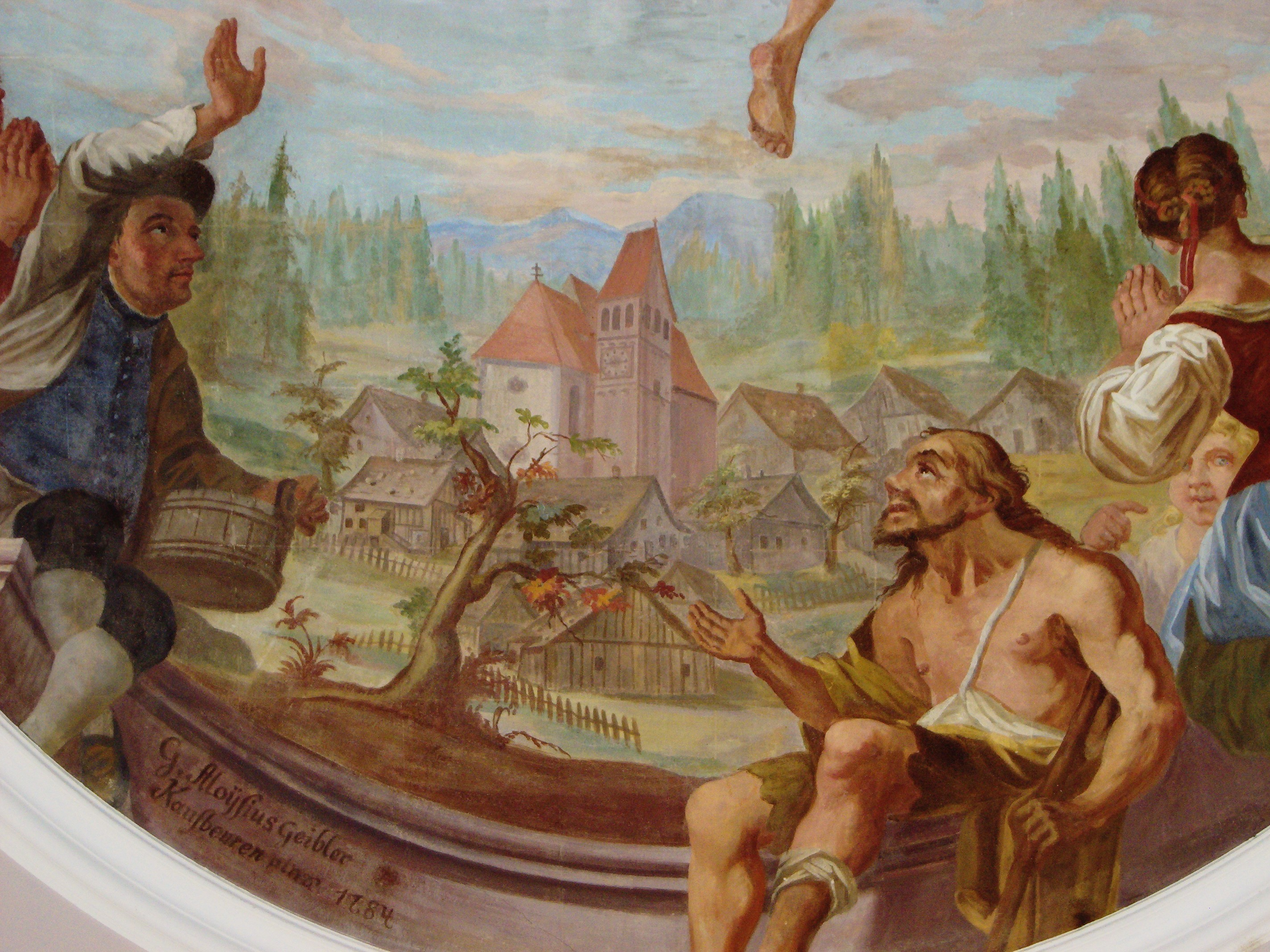 Welden (Fuchstal), St Stephen's Subsidiary Church. Fresco on the nave ceiling by Alois Gaibler, 1784 (detail).